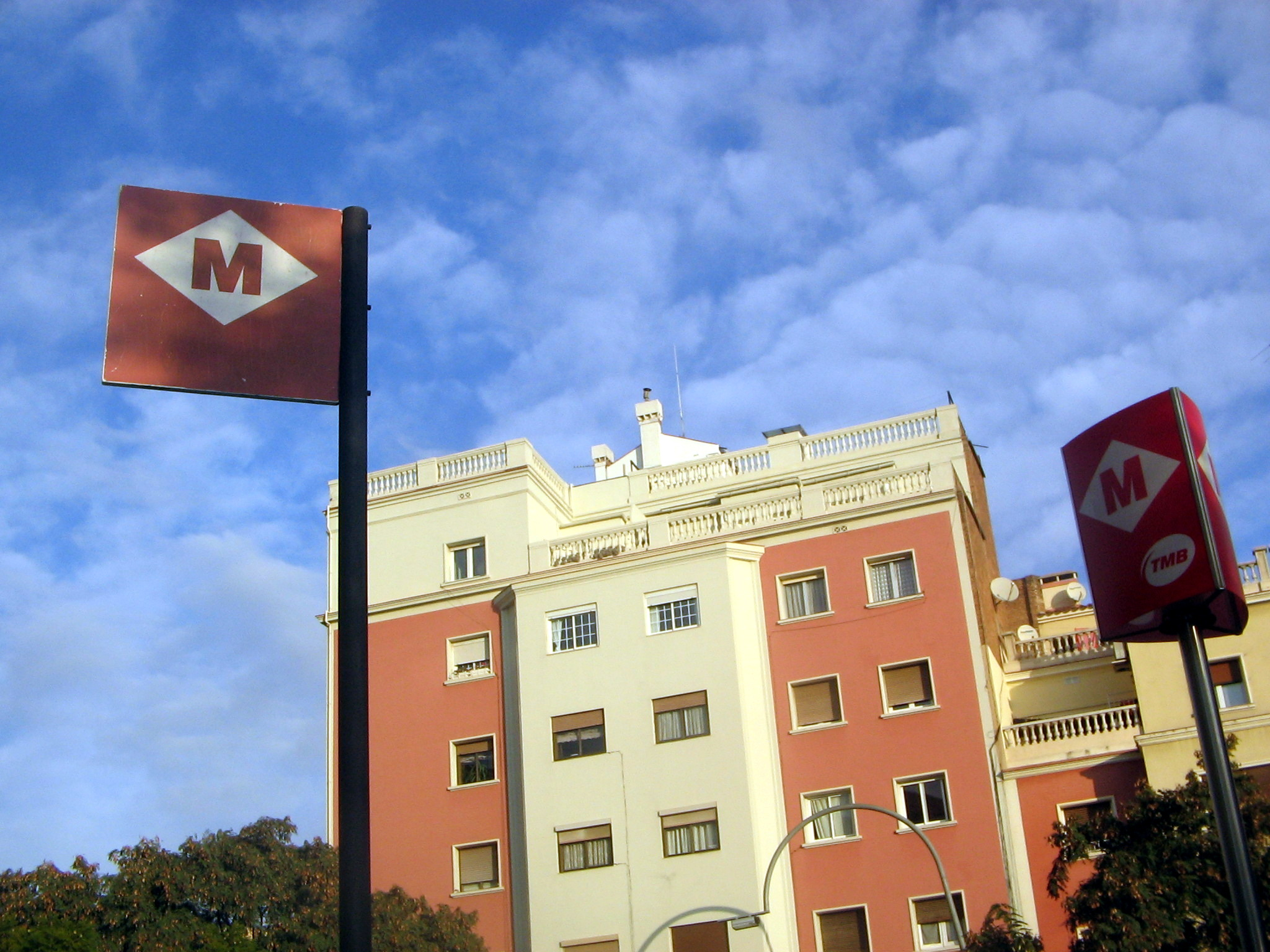 Virrei Amat station.